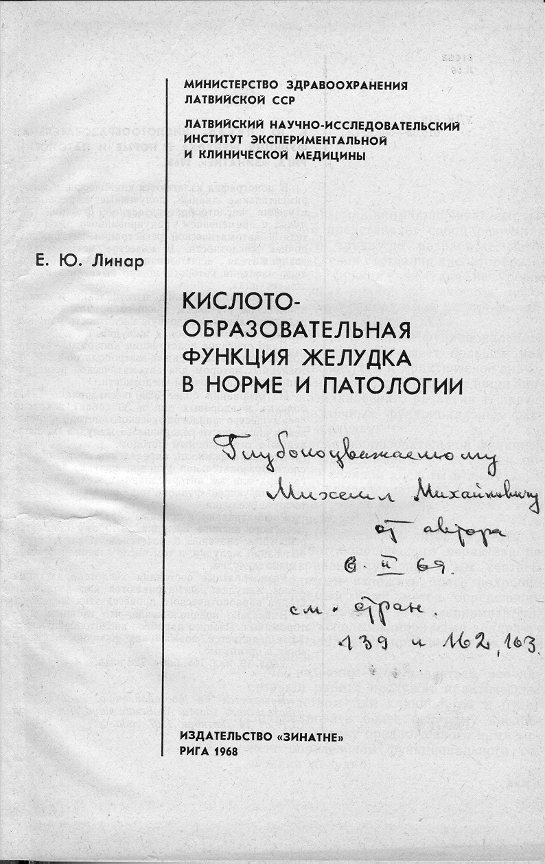 Front page the Jevgenijs Linārs monograph, with an inscription Academician Schulz